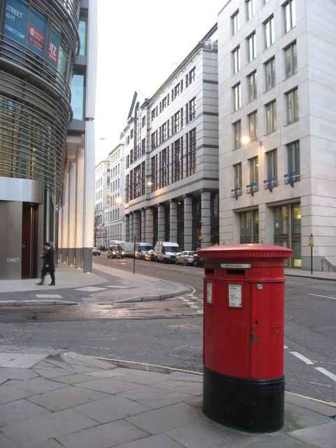 Gresham Street / Milk Street, EC2 Shows the location of 1096750.